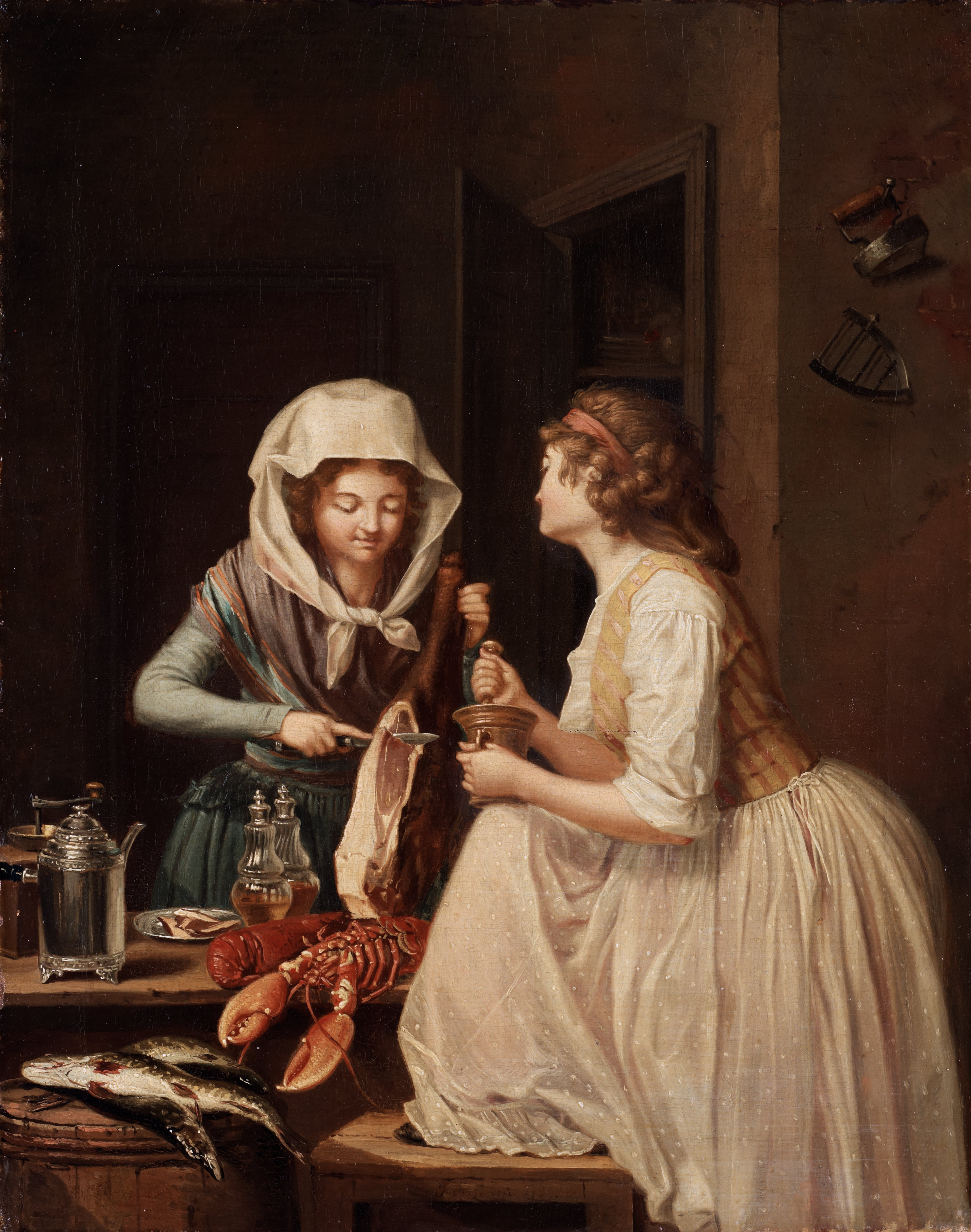 Two women, one cuts ham, the other grounds pepperlabel QS:Len,"Two women, one cuts ham, the other grounds pepper" label QS:Lsv,"Tvänne Qvinnor, den ena skär skinka, den andra stöter peppar."